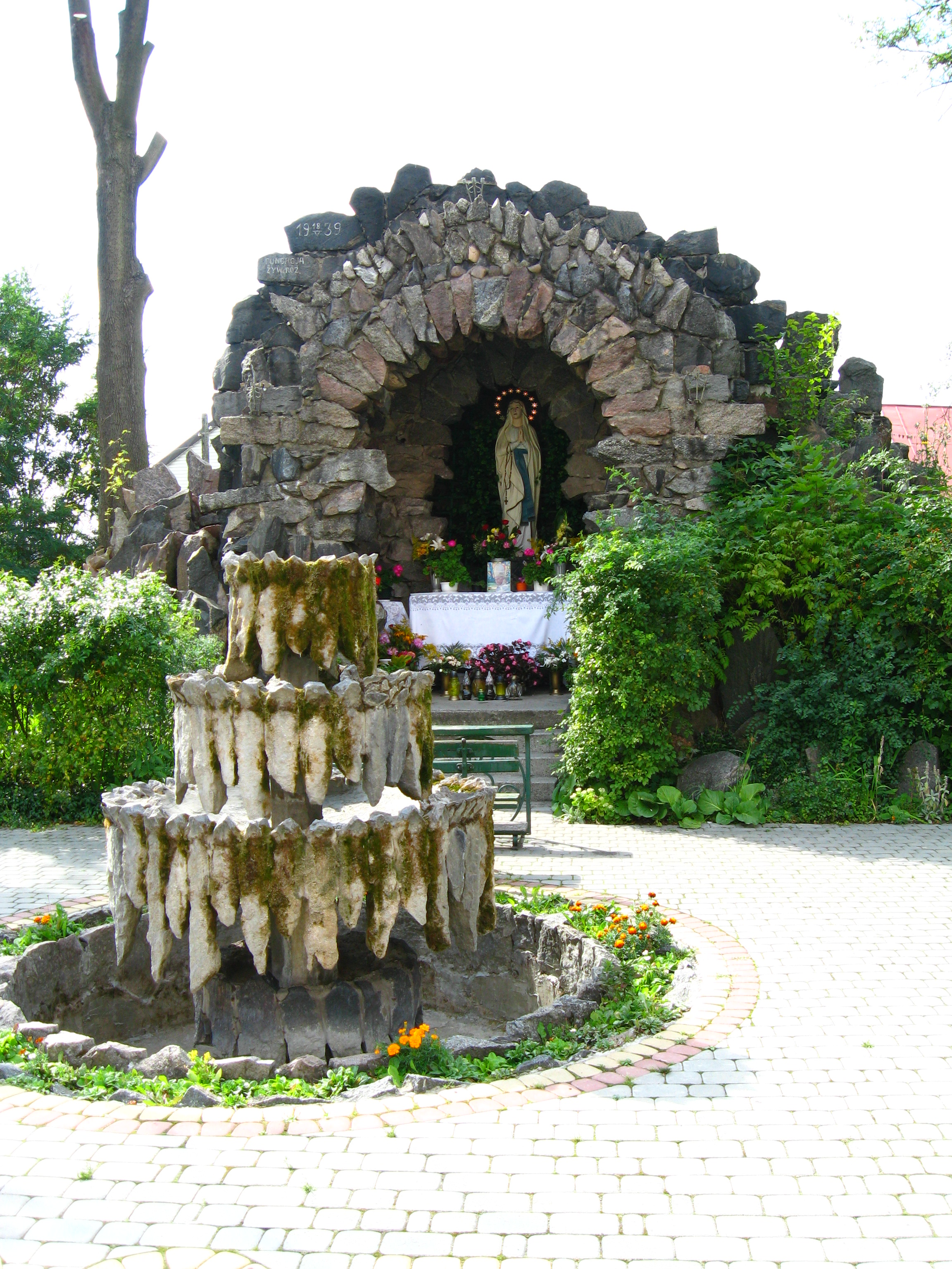 Altar of BVM by roman-catholic church of saints Peter and Paul